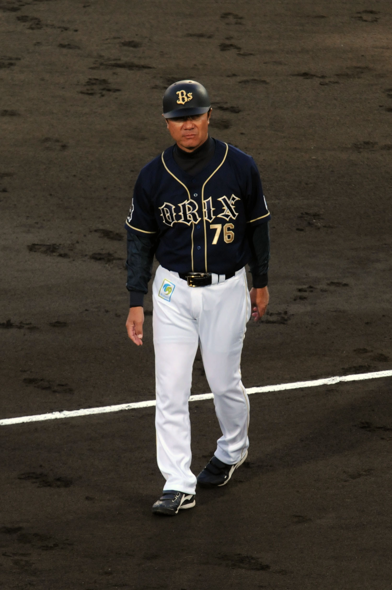 Naoyuki Kazaoka, coach of the Orix Buffaloes, at Akita Prefectural Baseball Stadium